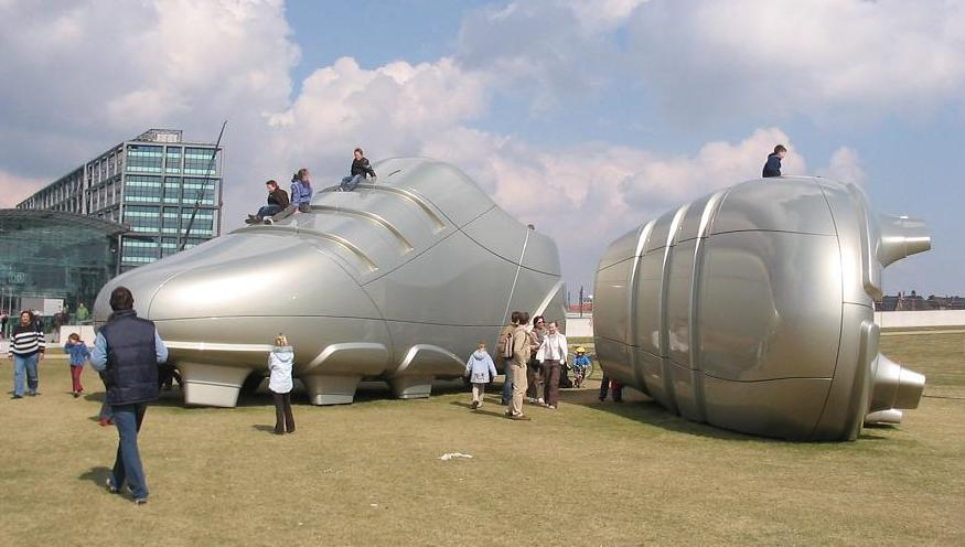 „Der moderne Fußballschuh“ (The modern football-shoe), first sculpture (from six) of the Berliner „Walk of Ideas“ on the occasion of en:2006 FIFA World Cup, revealed on 10. March 2006 in Spreebogenpark.